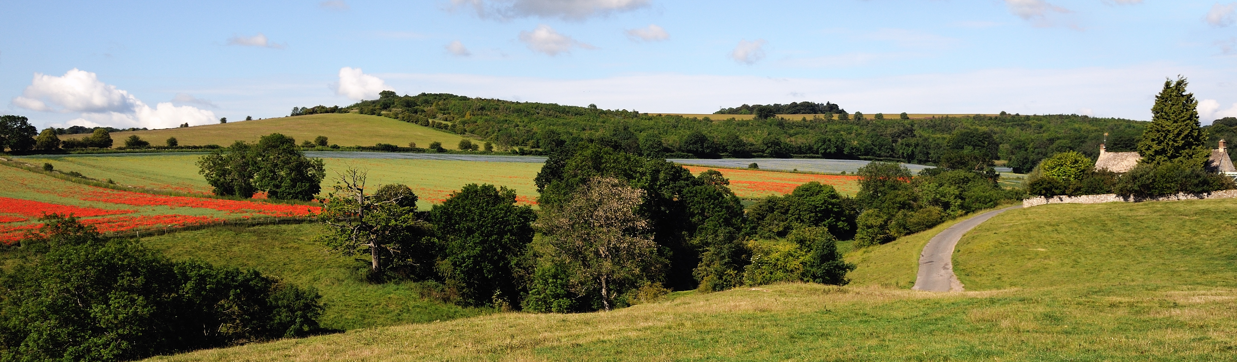 Rolling hills of the Cotswolds near Coberley.